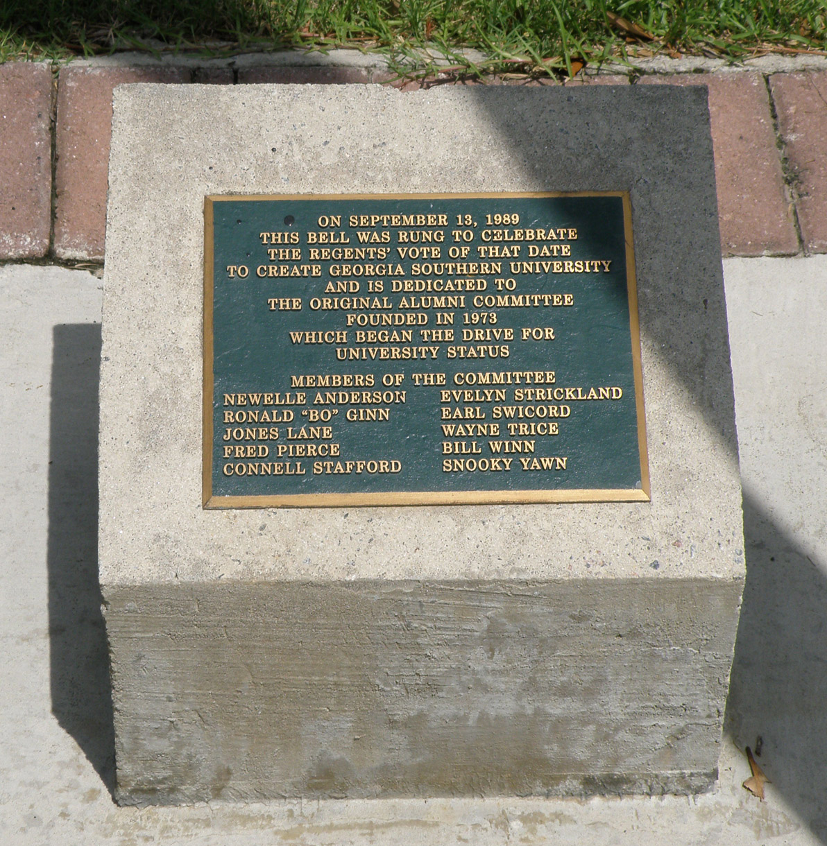 A detail of the plaque on the left of the bell next to the Builders of the University Terrace on the campus of Georgia Southern University. See an image of the Builders Terrace at .